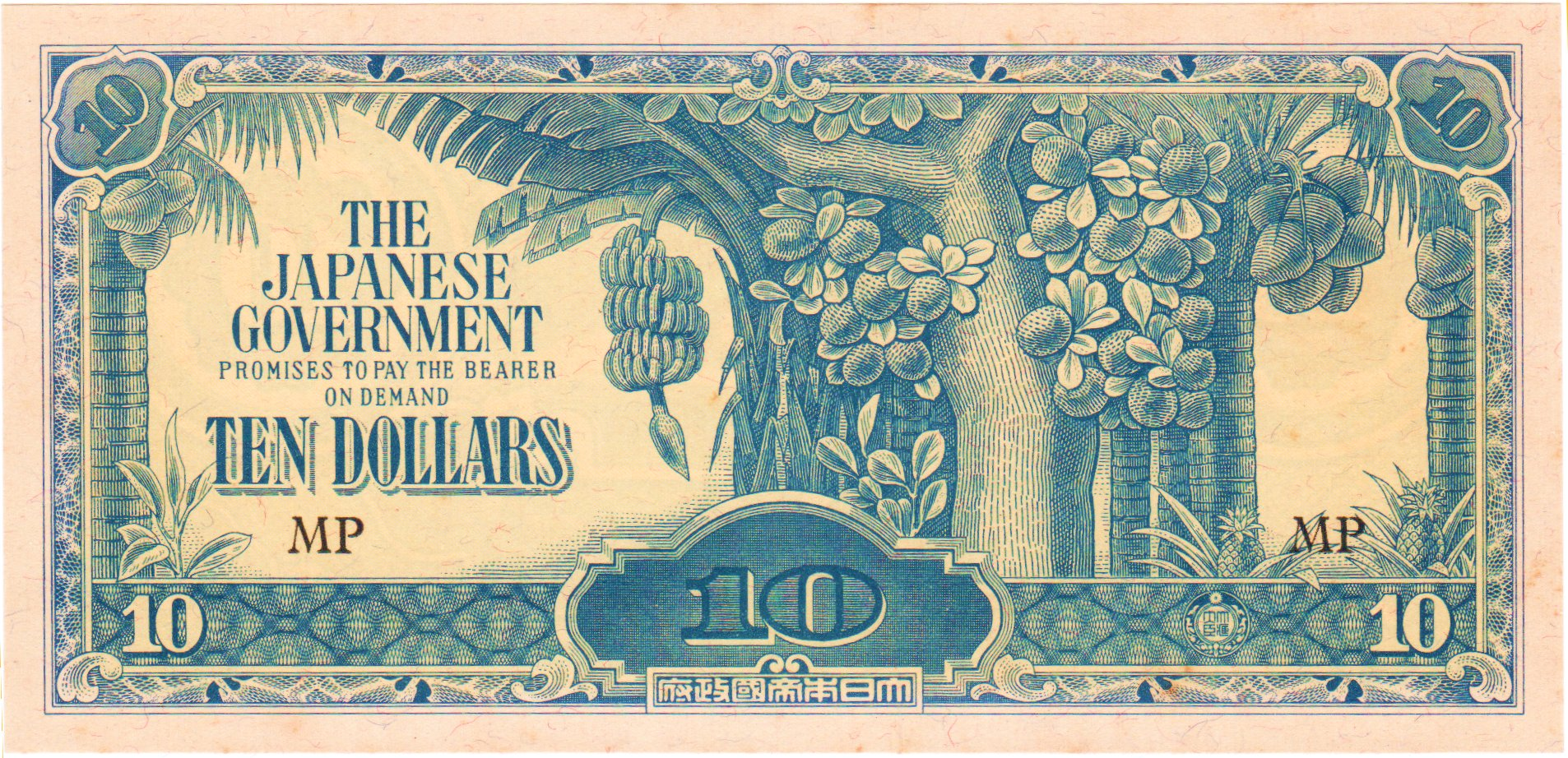 The obverse of a ten dollar note (Height: 7.8 cm (3 in); Width: 16.1 cm (6.3 in)) issued by the Government of Imperial Japan during the Japanese occupation of Singapore, Malaya, North Borneo, Sarawak, and Brunei in 1942. The currency was informally known as "banana money" because of the banana tree motifs on this note.